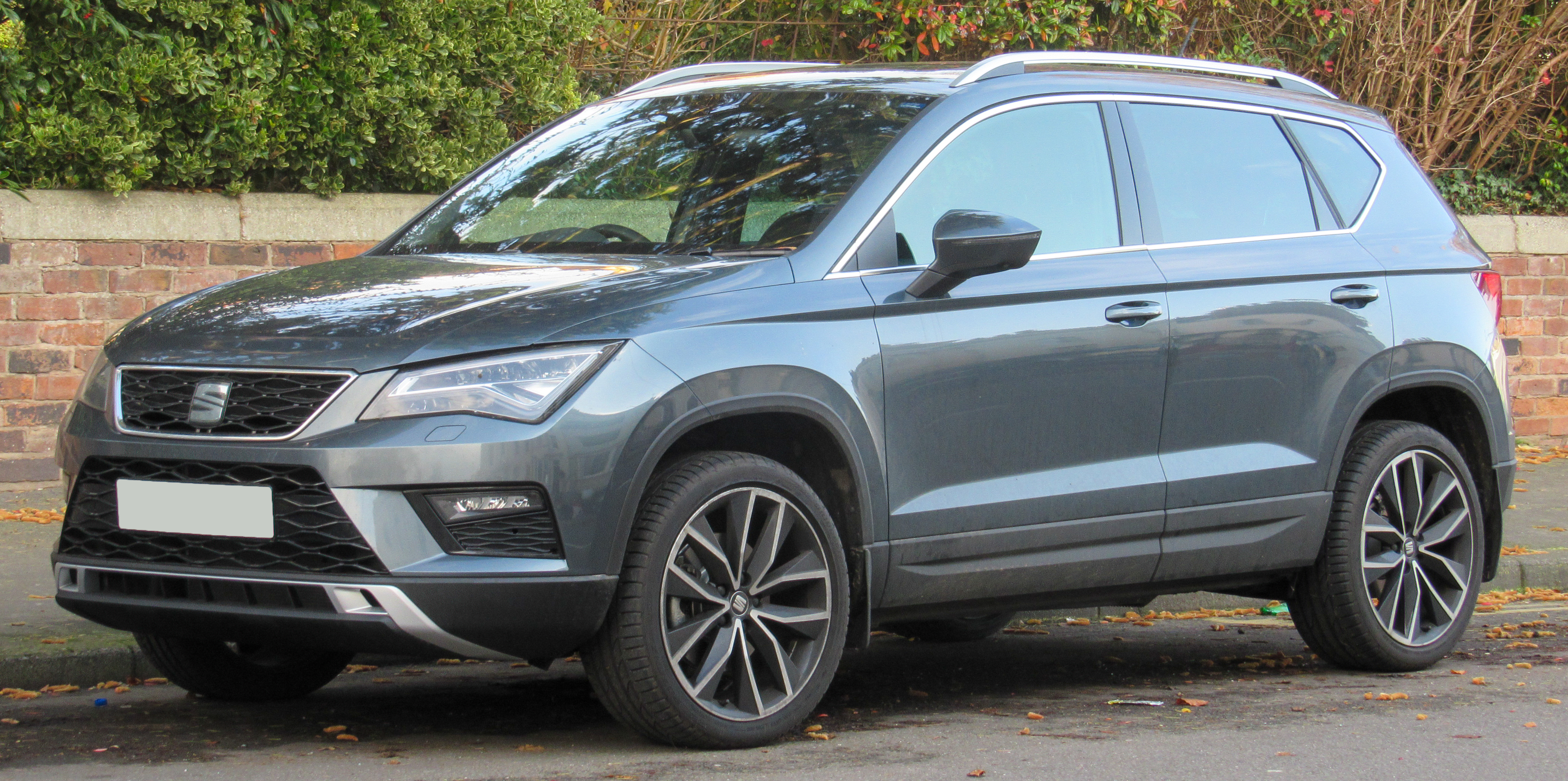 2017 SEAT Ateca Xcellence 1.4 Front Taken in Leamington Spa